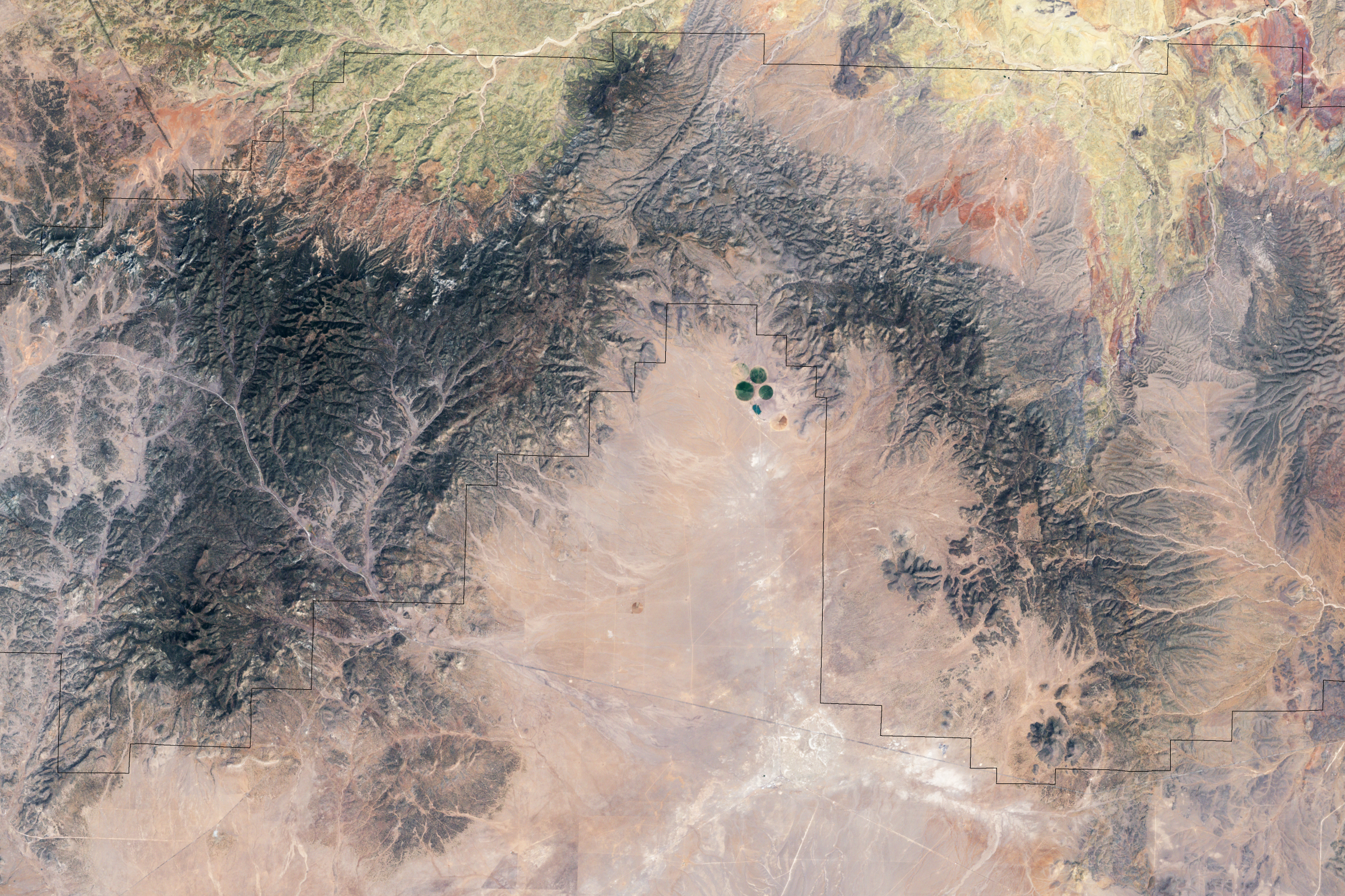 Some elements of the Very Large Array are visible in this image, at bottom center. Outside the black outline of the Cibola National Forest and with its center on a light patch below the more readily visible dark line of Highway 60, several faint lines are arranged in an inverted Y shape. The Y shape is punctuated in places by white dots: the radio dishes. With a diameter of 25 meters, the dishes are slightly smaller than the resolution of Landsat 7 (image pixels are 30 meters by 30 meters), but they show up in the image because their bright white surfaces make such a sharp contrast to the dark ground around them. When this image was taken, the VLA was spread out in its widest configuration.